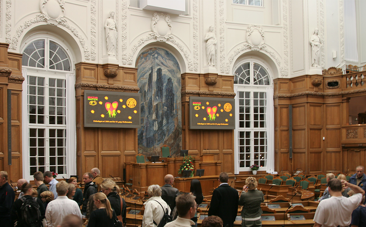 Interior from Folketinget in Christiansborg Castle